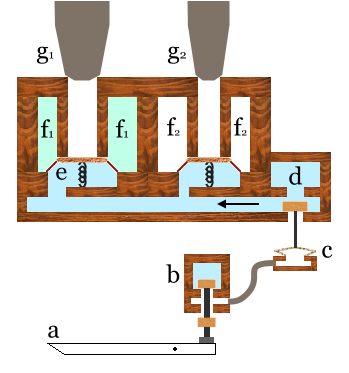 Technical drawing of the inside of an organ